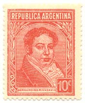 Stamp of Argentina, with former president Bernardino Rivadavia.